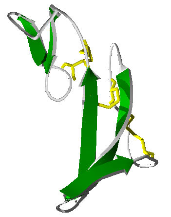 molecular model of EGF